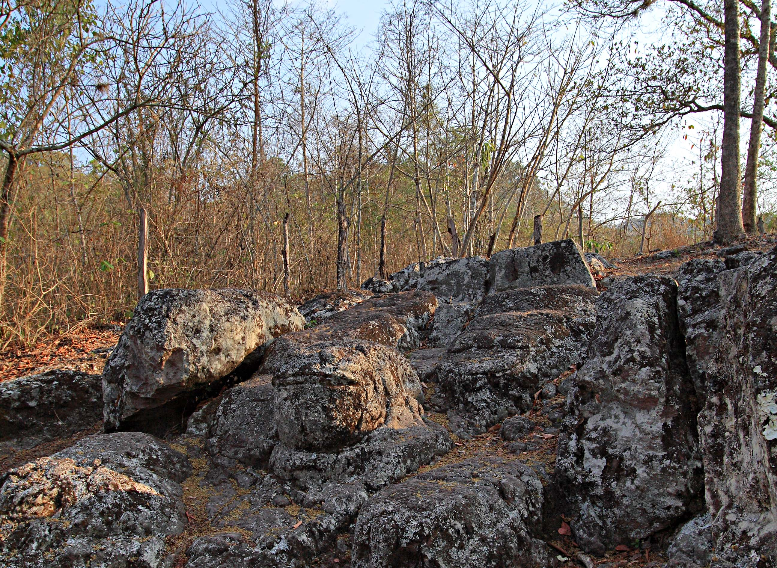 Fragment of the sculptured outcrop known as "Los Sapos" ("the toads") in the Copan River valley, app. 1km south of the Copan archaeological site epicenter